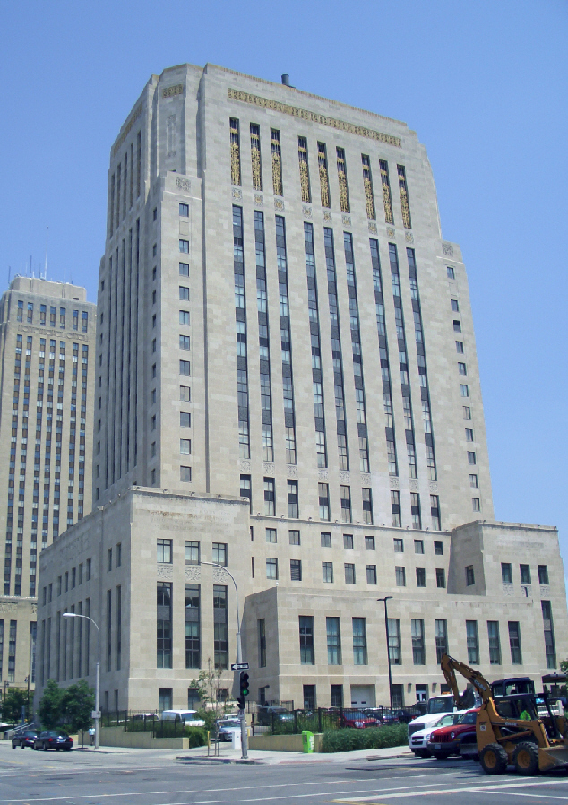 Jackson County Courthouse, Kansas City, Missouri